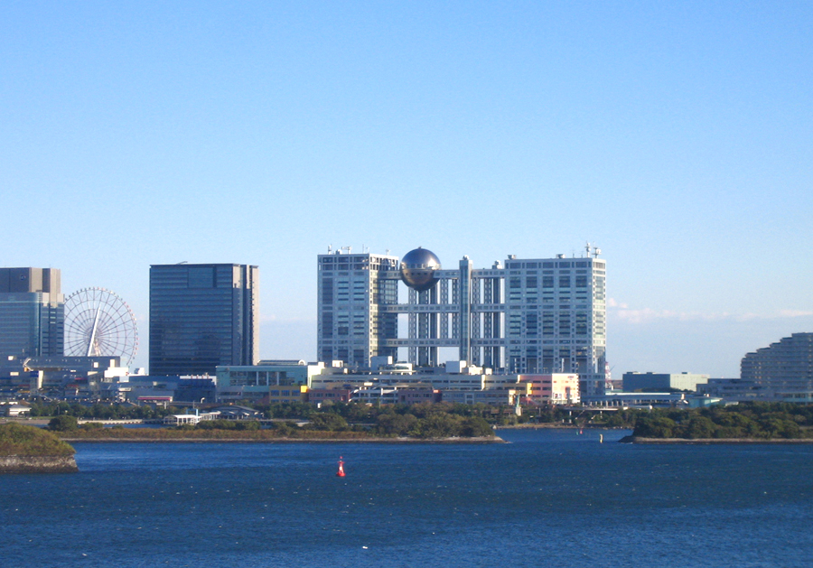 Fuji TV Headquarters at Odaiba (Personal picture taken on November 12, 2006)